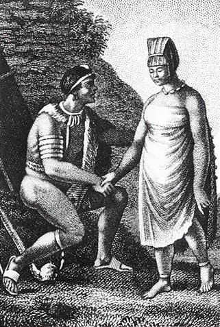 A Xhosa couple in the early 1800's.